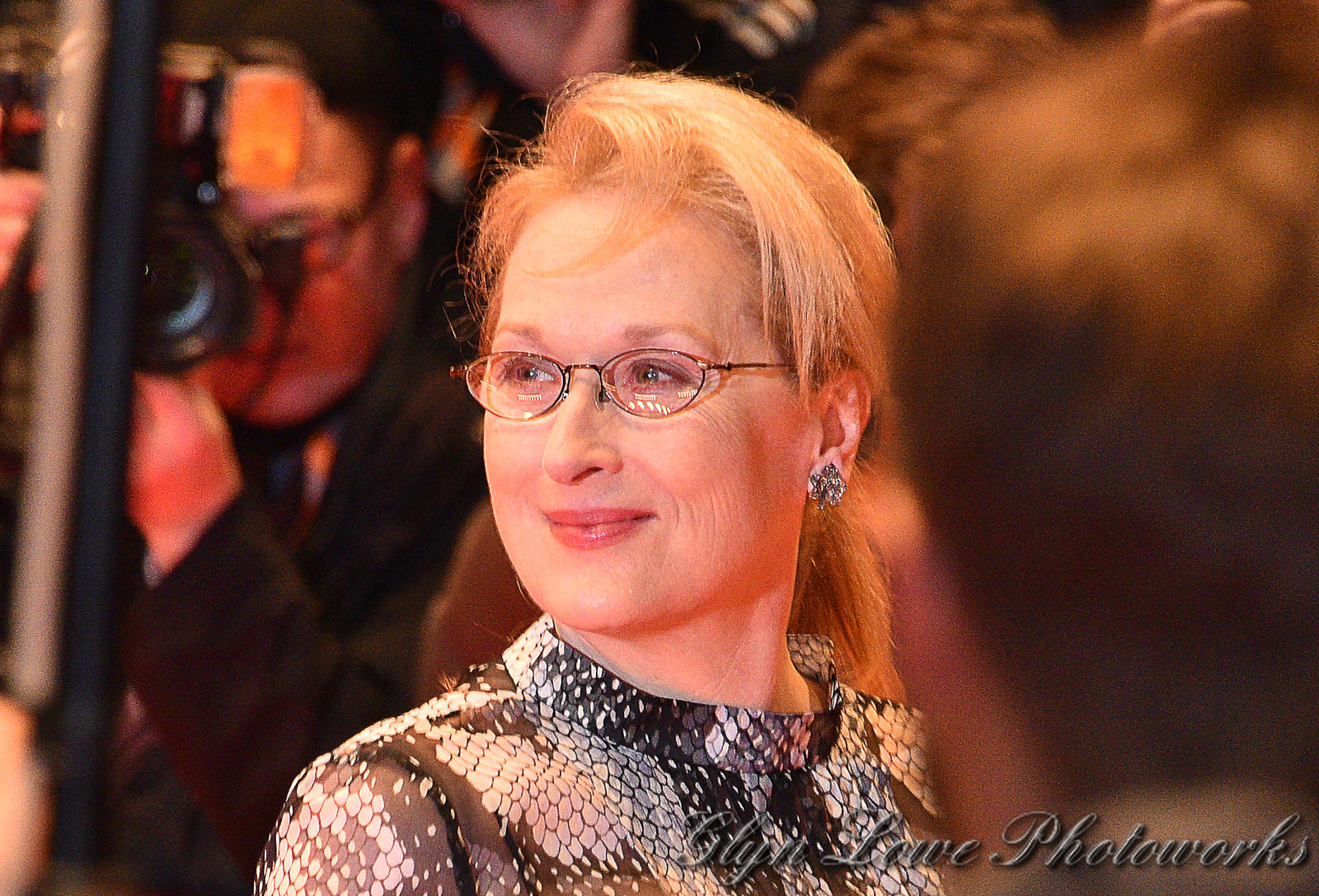 'Hail, Caesar!' Premiere during the 66th Berlinale International Film Festival on February 11, 2016 in Berlin, Germany. February in Berlin is all about film: international stars on the red carpet, enthusiastic fans from around the world – and, above all, some great films. Around 400 films are shown at the Berlinale and tickets are available for everyone, because the Berlinale is the world’s largest public film festival. For ten days, the festival features films that inspire, touch and let you discover new worlds. More Photos At